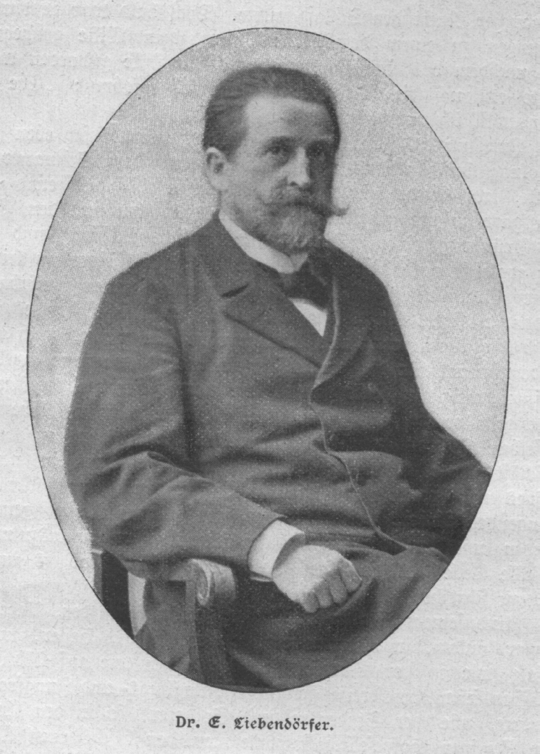 Dr.Eugen Liebendörfer Missionsarzt in Indien